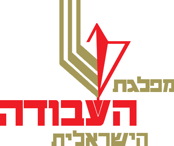 Symbol/logo of the Israeli labor Party as it appeared in its headquarters in Tel Aviv prior to the dissolution of the Alignment and the creation of the modern logo varieties.